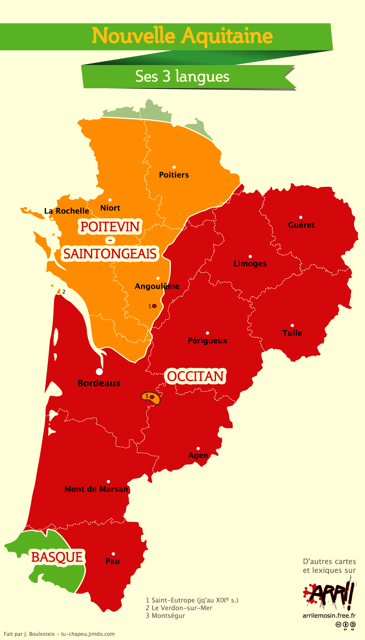 The new region Aquitaine-Limousin-Poitou-Charentes and the 3 historic languages. Poitevin-Saintongeais, the Occitan and Basque. Map realized for the collective Arri! By J.Boulesteix ( Jiròni B.).